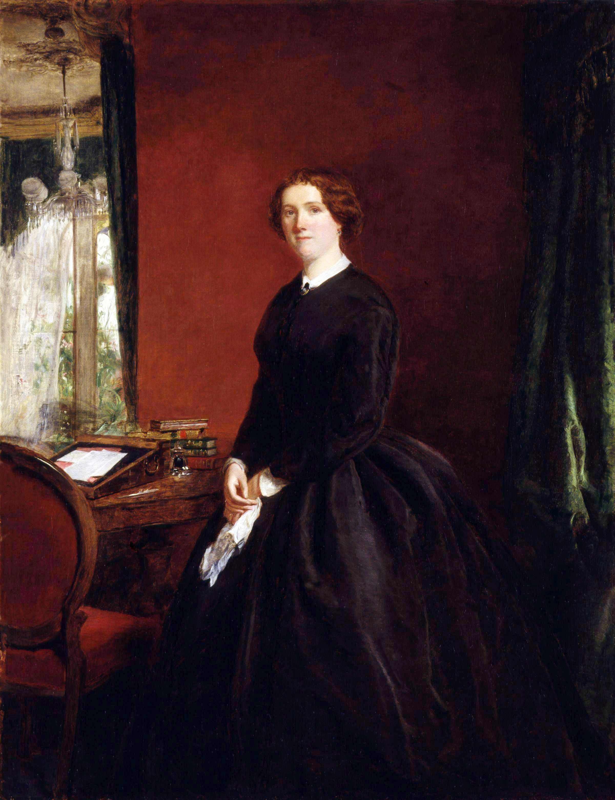 Mary Elizabeth Maxwell (née Braddon), by William Powell Frith (died 1909), given to the National Portrait Gallery, London in 1966. All images in this batch have been confirmed as author died before 1939 according to the official death date listed by the NPG.